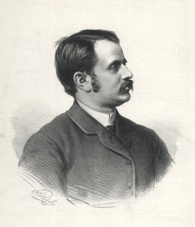 Berthold Englisch (1851–1897), leading Austrian chess master